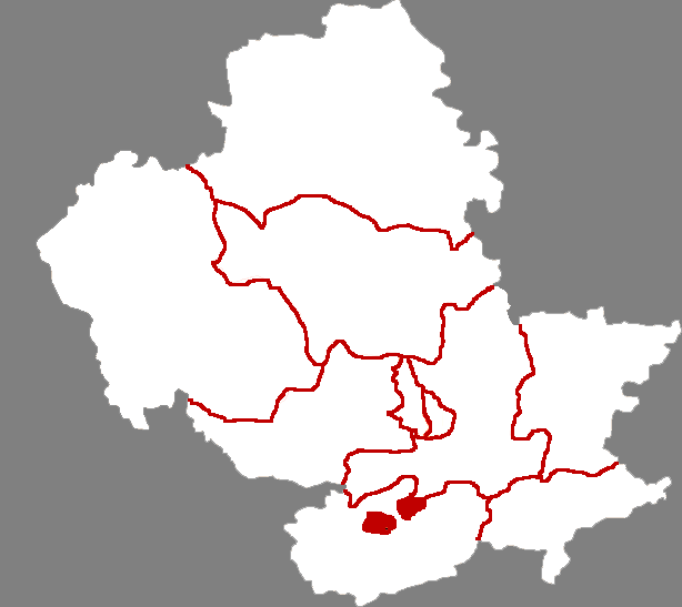 Location of Yingshouyingzi Mining District in Chengde City, China